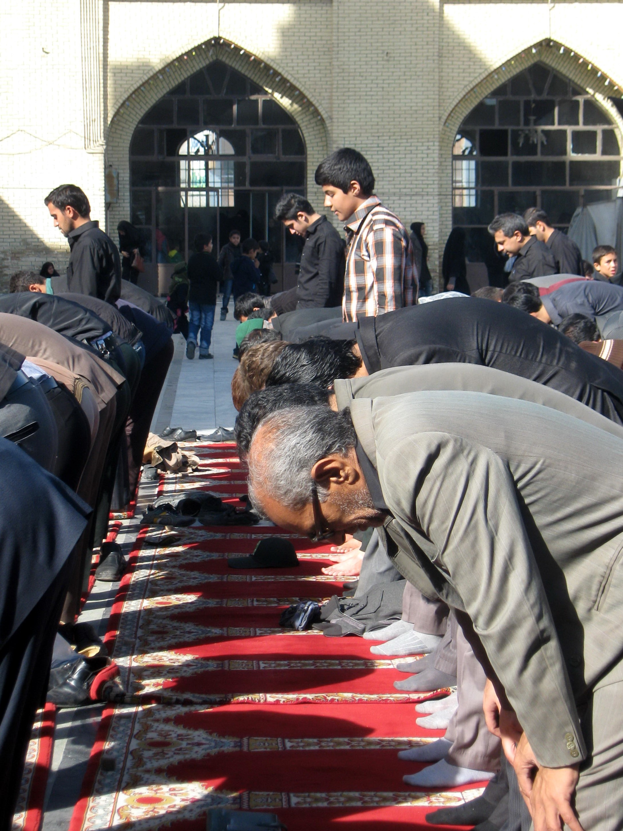 November13,2013 - Muharram 9,1435 - Grand Mosque of Nishapur